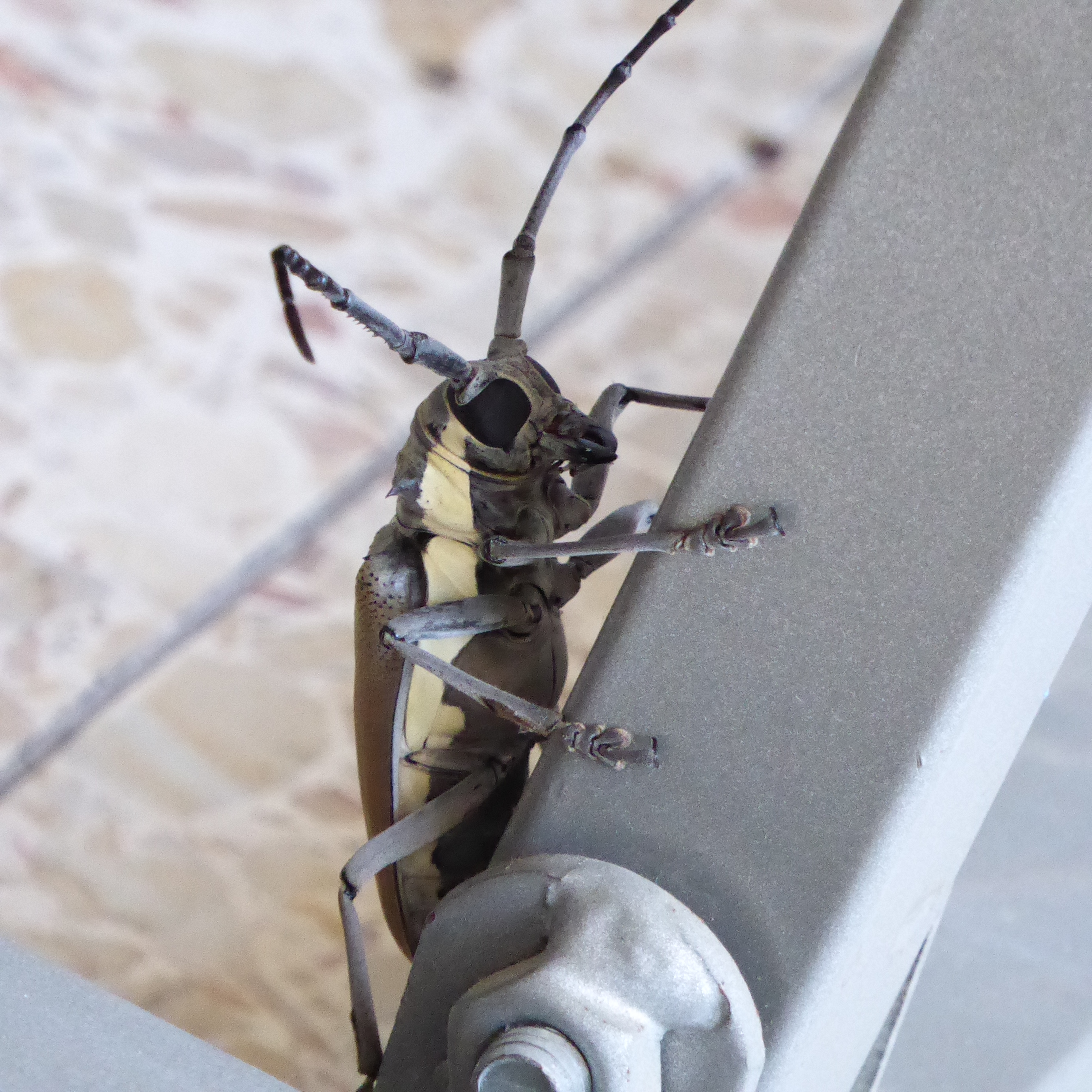 Batocera rufomaculata